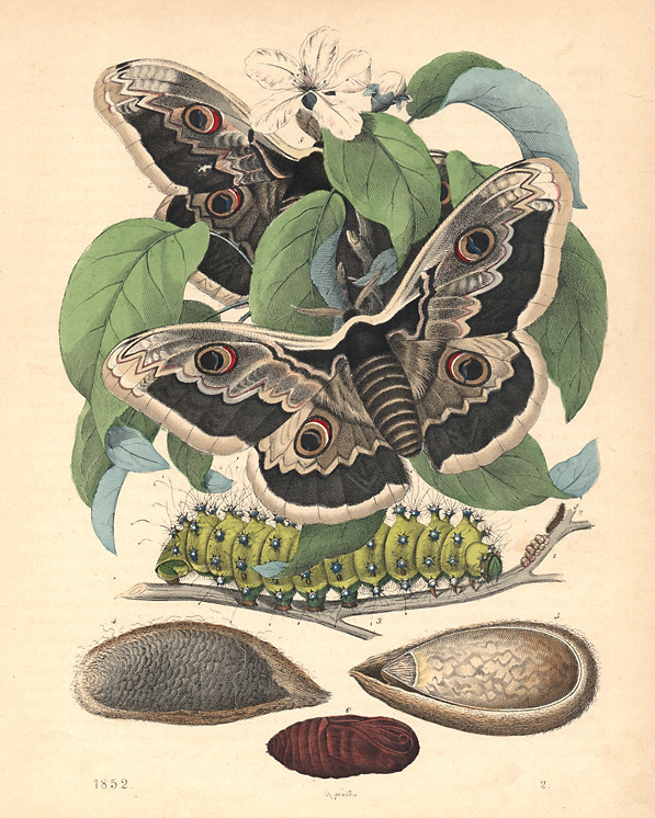 Great Peacock Moth Saturnia pyri ([Denis & Schiffermüller], 1775.